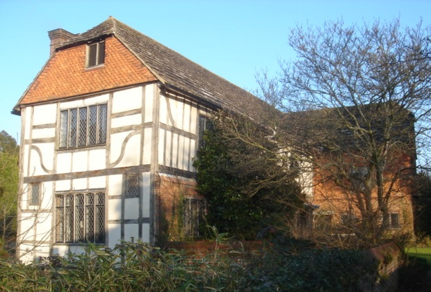 Ewhurst Place, Ifield, Borough of Crawley, West Sussex, England: a late 16th-century timber-framed house which sits inside an ancient moat. Listed at Grade II* by English Heritage (IoE code 363362)